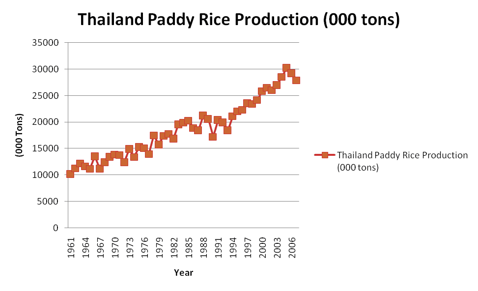 Graph of statistics from